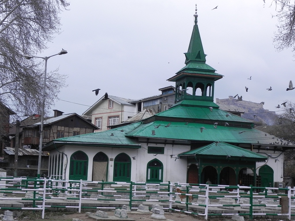 Ziyarat Naqshband Sahab Shrine view from yard